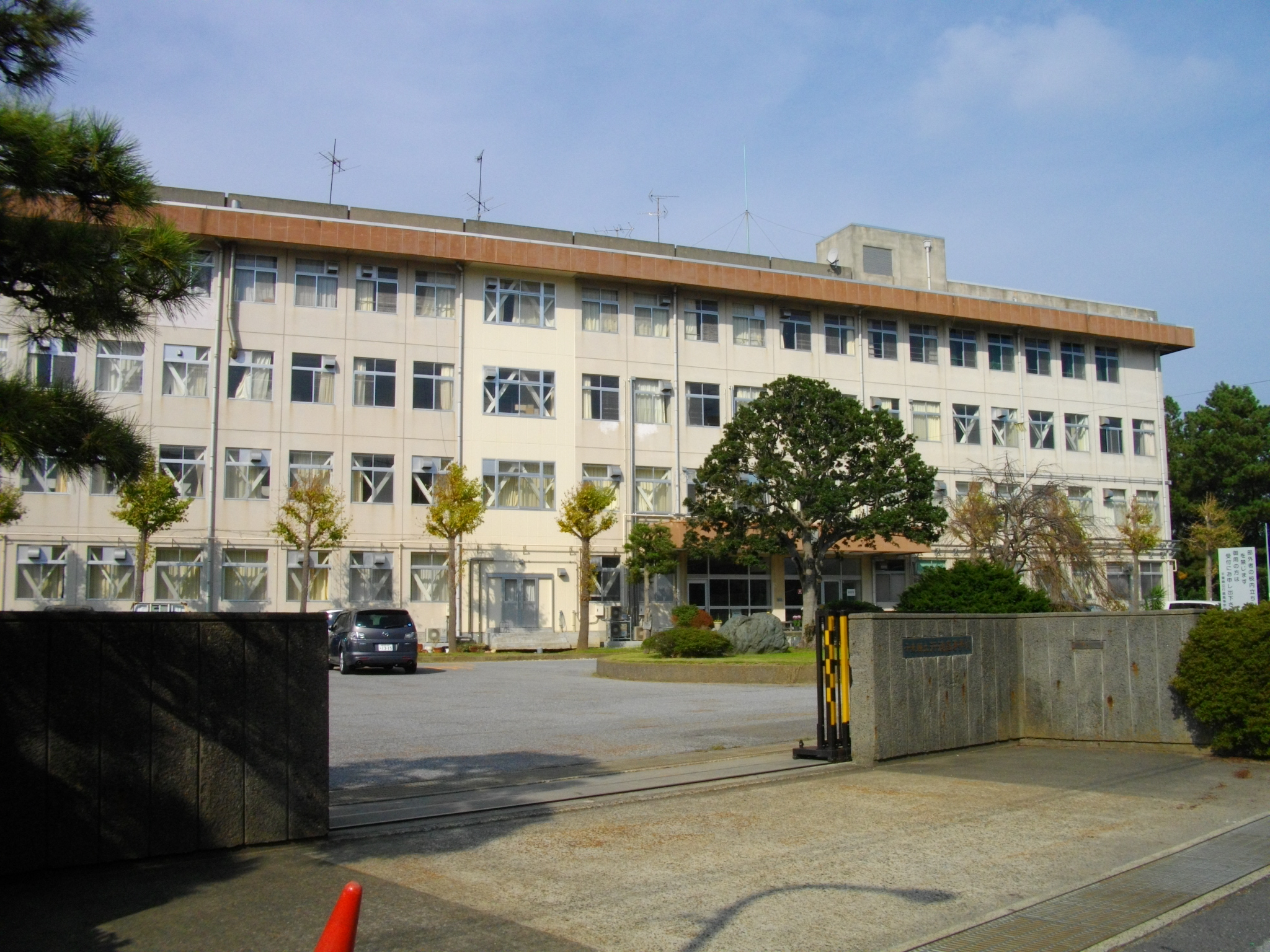 Gyotoku High School